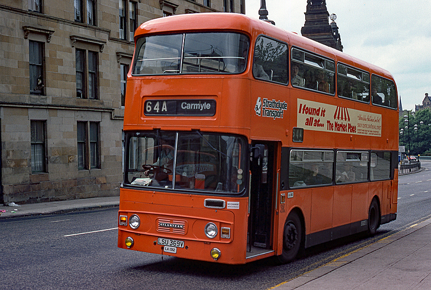 Strathclyde Transport Leyland Atlantean AN68A/1R Alexander (LSU 369V) near Glasgow Central Station. Fleet number LA1312. Scanned from a Kodachrome 35mm slide.